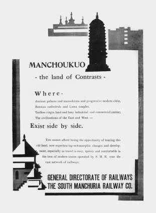 Advertisement of the South Manchuria Railway Company.